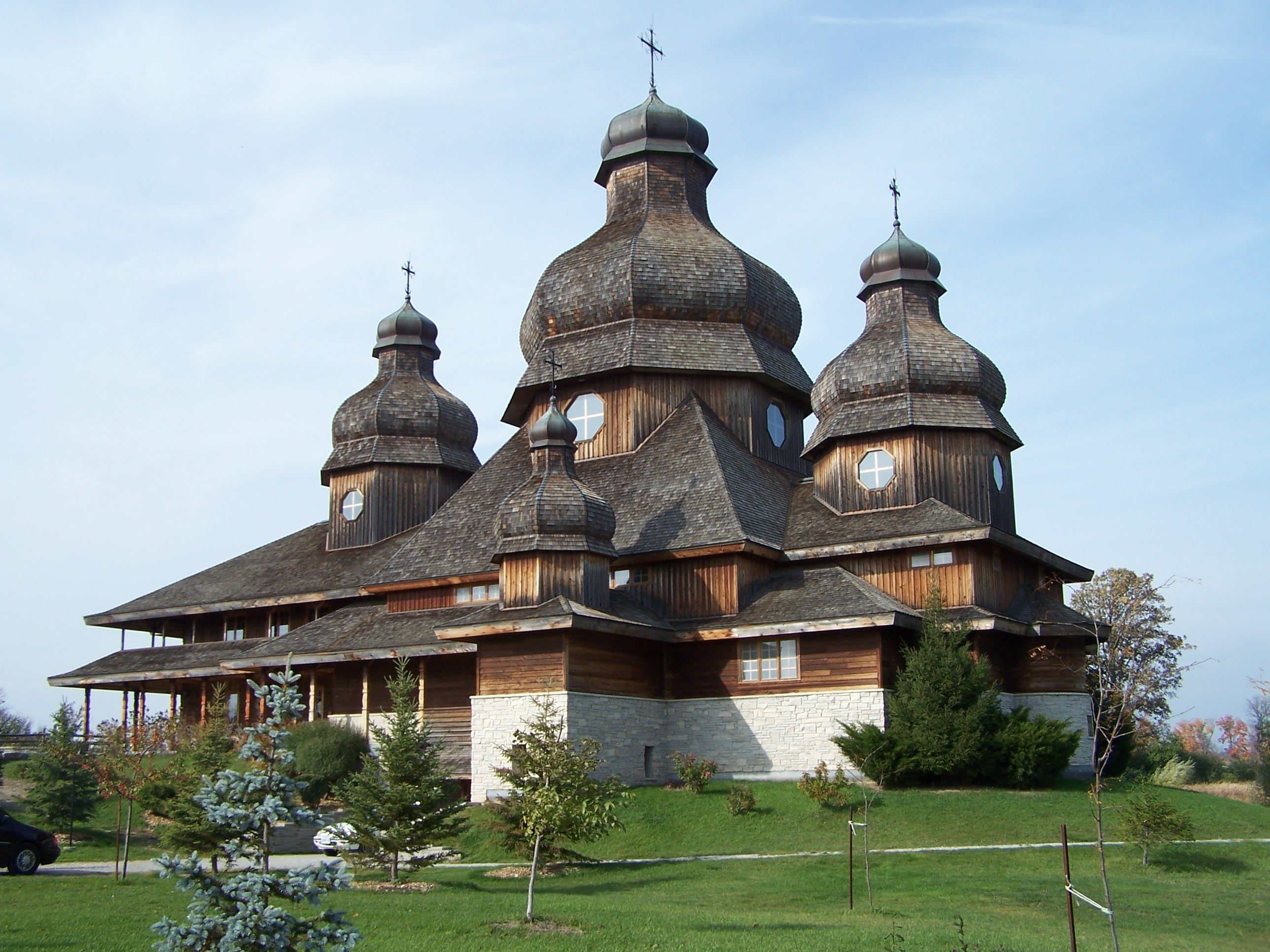 St Elias Ukrainian Church in Brampton, On, Canada.